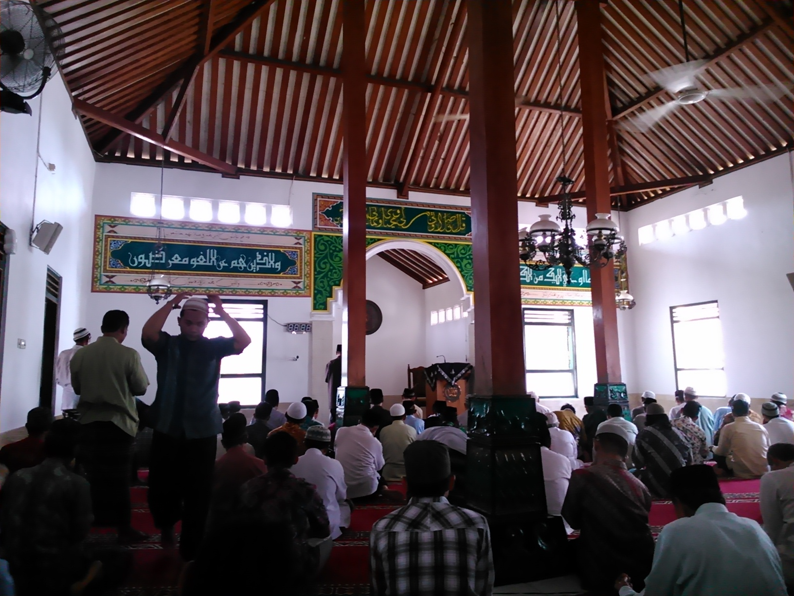 Interior of the main room of Ad-Darojat Pathoknegara Babadan, Yogyakarta, Indonesia